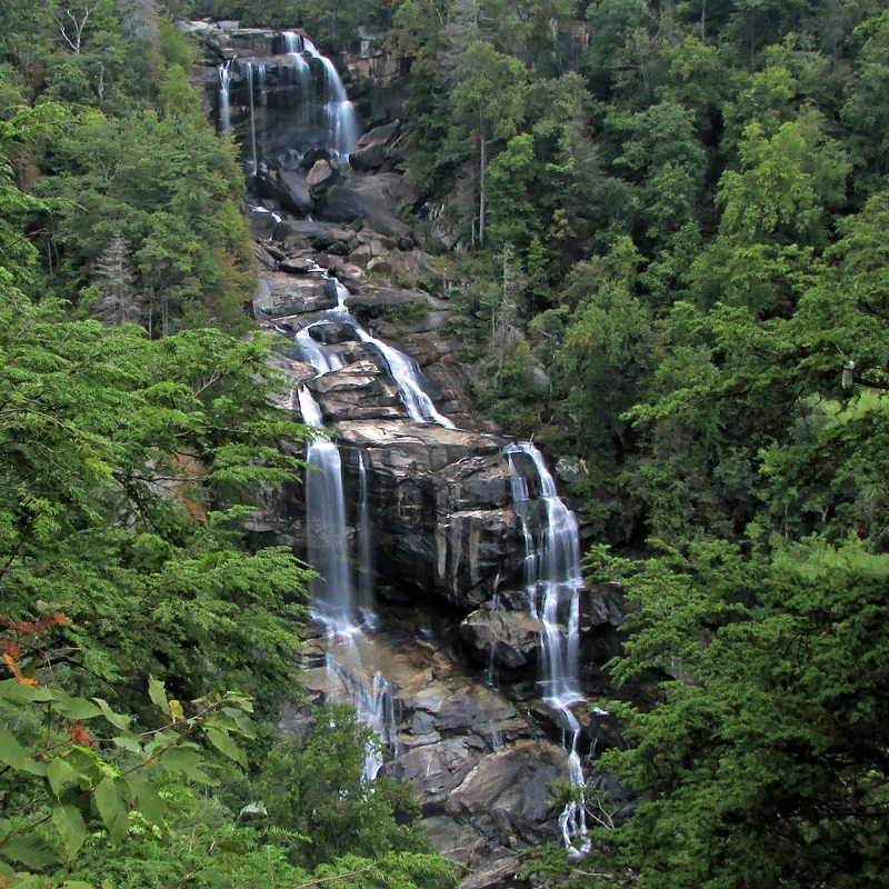 Upper Whitewater Falls in Jackson and Transylvania counties, North Carolina.